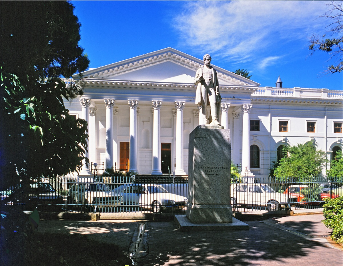 This media shows a South African Protected Site with SAHRA file reference 9/2/018/0186.